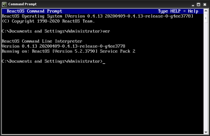 cmd.exe / Command Prompt on ReactOS-0.4.13